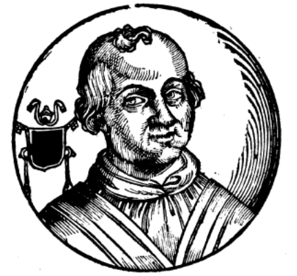 Leo VI, drawn extracted by Bartolomeo Sacchi said Platina, Vite De' Pontefici, edited by di Onofrio Panvinio, per i tipografi Turrini, e Brigonci, Venice 1663